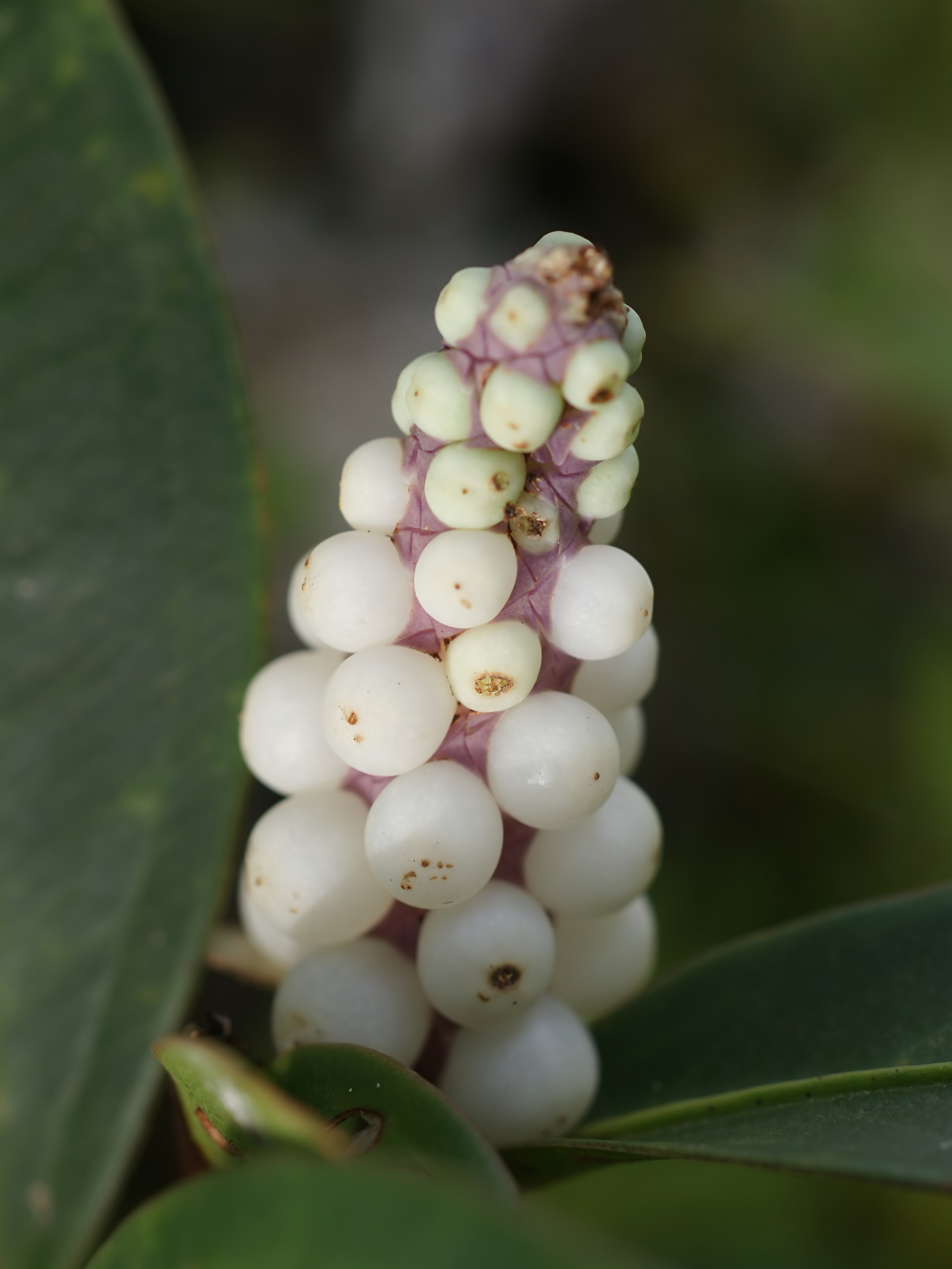 Pearl Laceleaf close to Volcano Arenal, Costa Rica